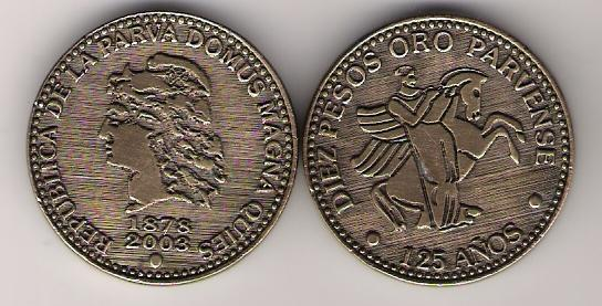 Coin from Parva Domus